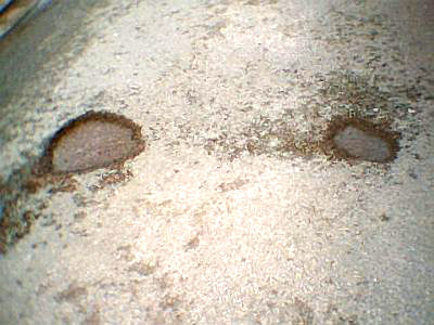 A picture of road pot-holes I took in Banbury in 2010.